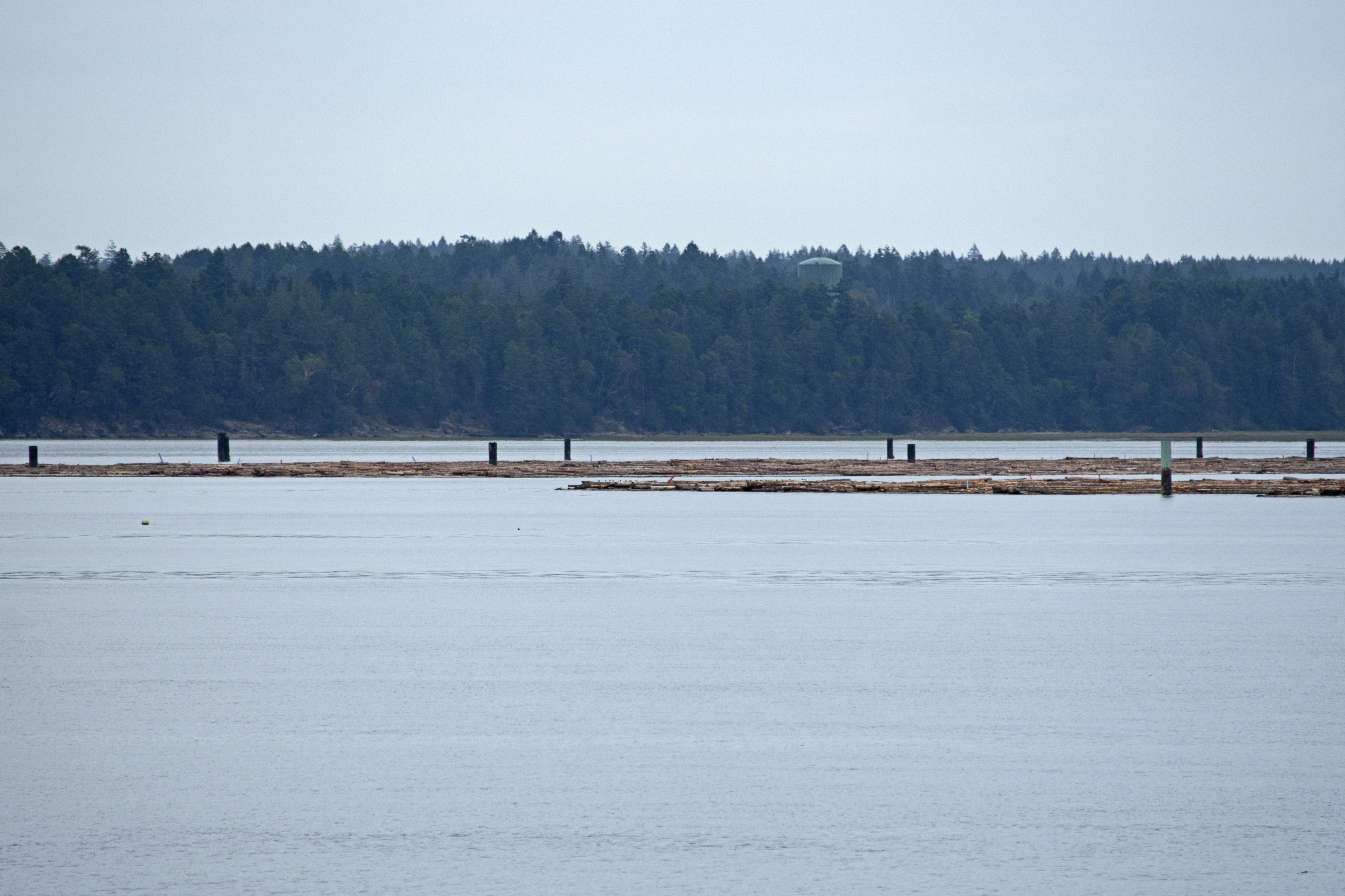 Nanaimo River estuary from the northern end of Shoreline Drive, Snuneymuxw First Nation.